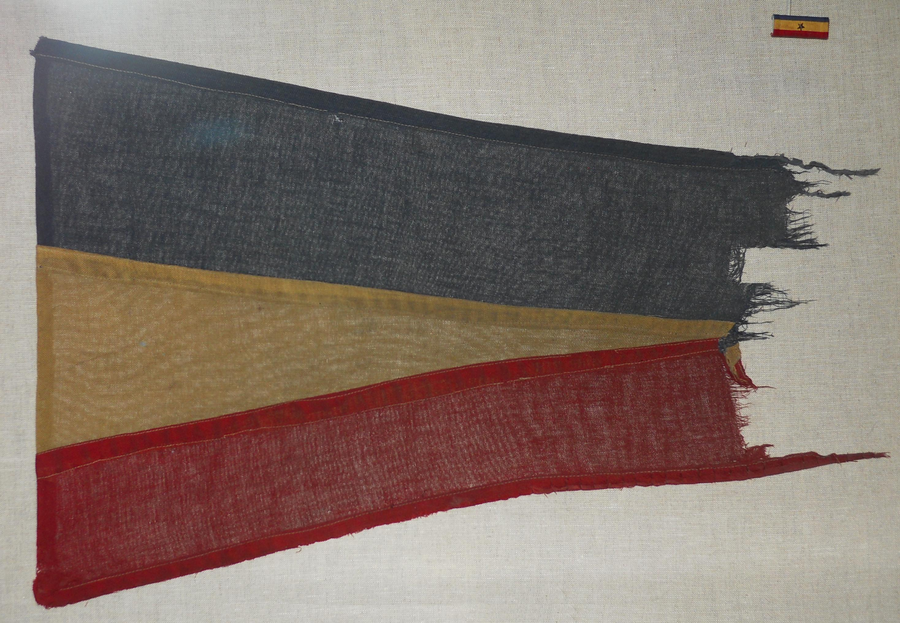 The Presidential Unit Citation pennant awarded to the US Navy ships that assisted in the capture of the German U-Boat, U-505, during World War II. The pennant and medal ribbon shown in the photograph are currently displayed at the Museum of Science and Industry in Chicago along with the U-505 itself.